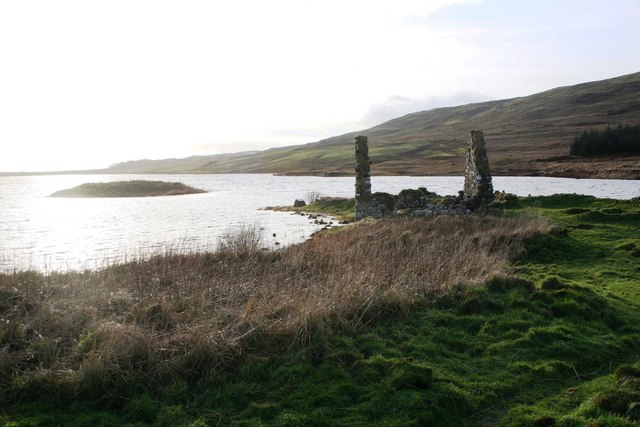 Finlaggan Farmstead The remains of a 16th century farmstead probably a two storey structure.